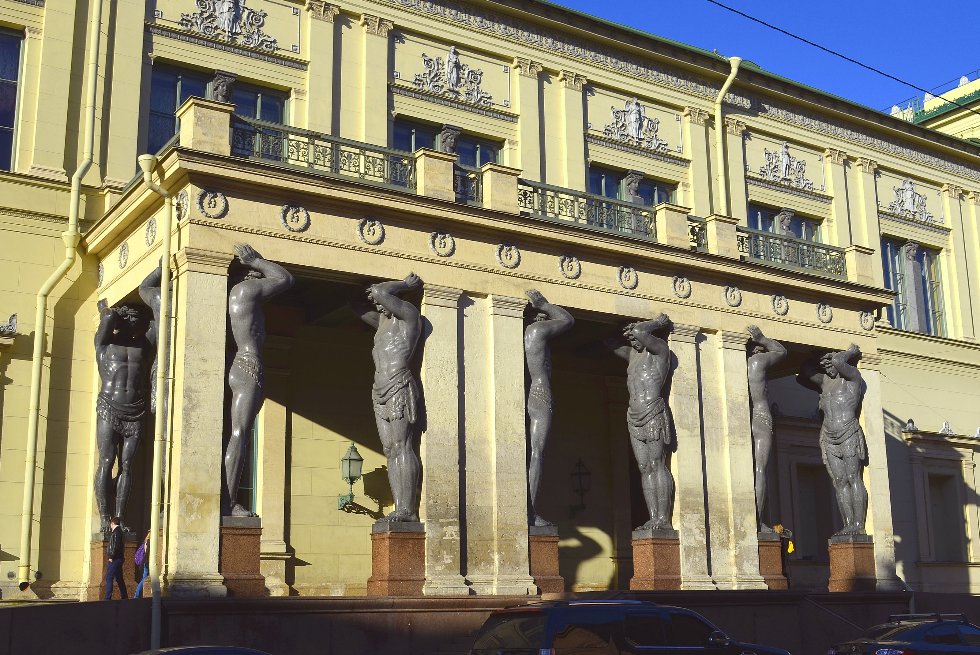 New Hermitage: Millionnaya Street, 35 / Zimney kanavki Embankment, 1. Tsentralny District, St. Petersburg